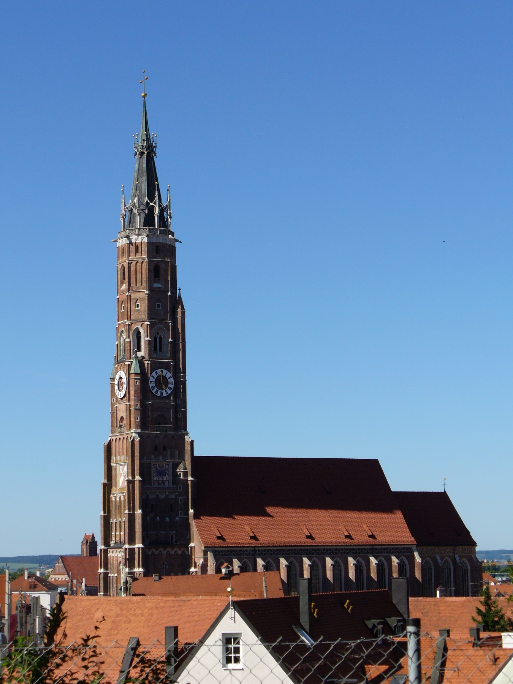 St.Martin church in Landshut, Germany